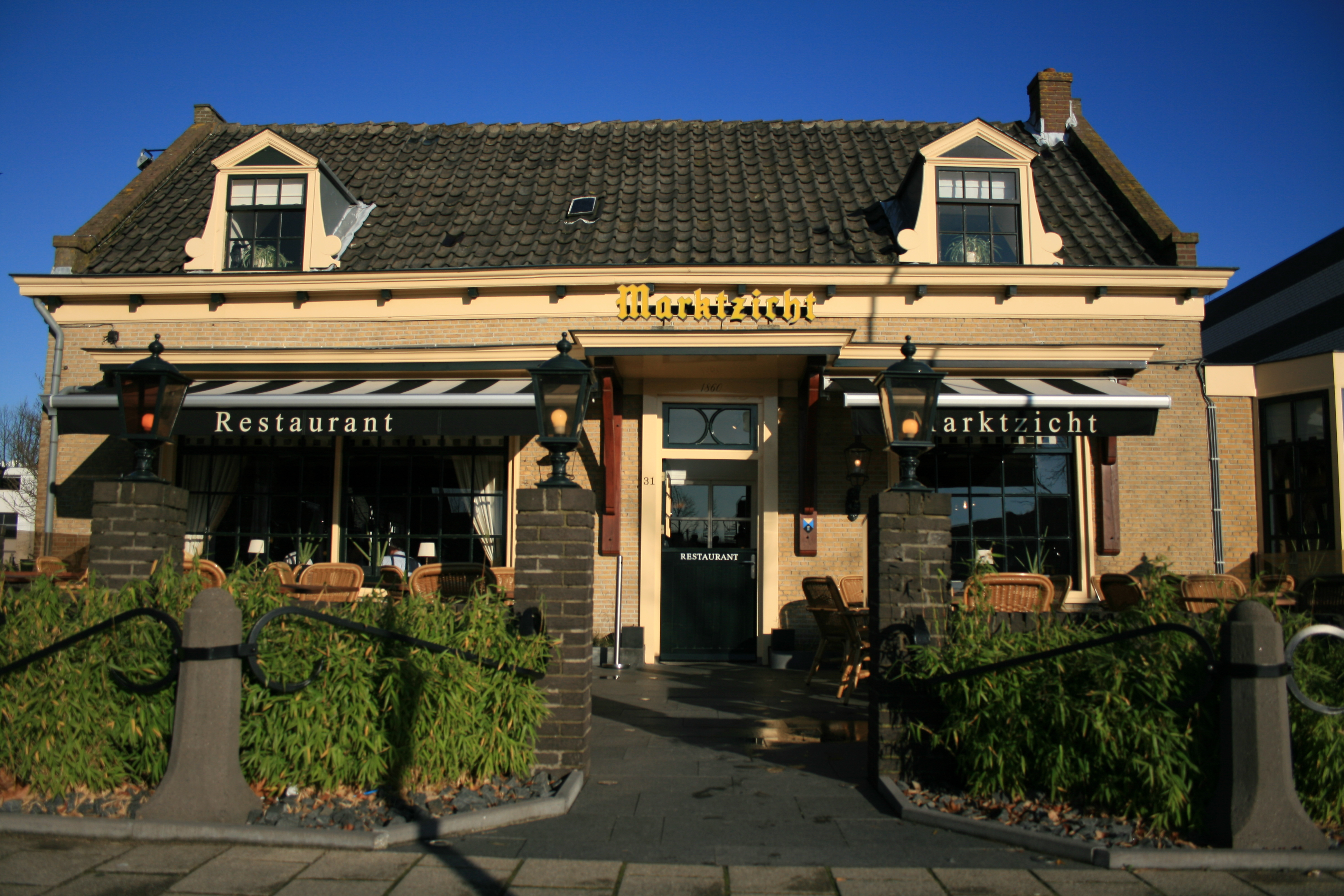 Front of restaurant Marktzicht, Hoofddorp